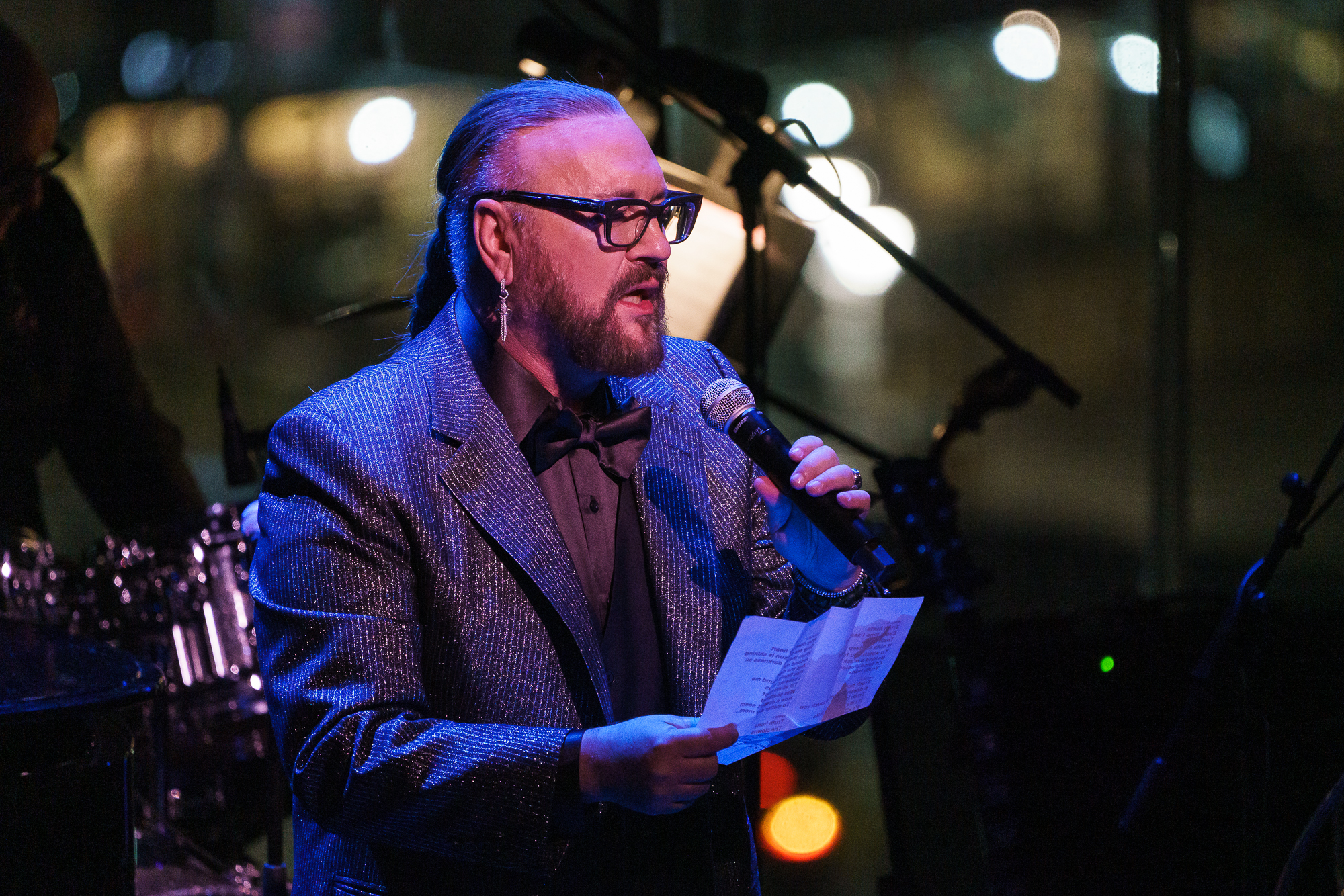 Appel Room February 16, 2019 Photo by Steven Pisano